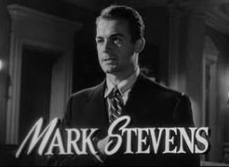 Cropped screenshot of Mark Stevens from the trailer for the film The Dark Corner.